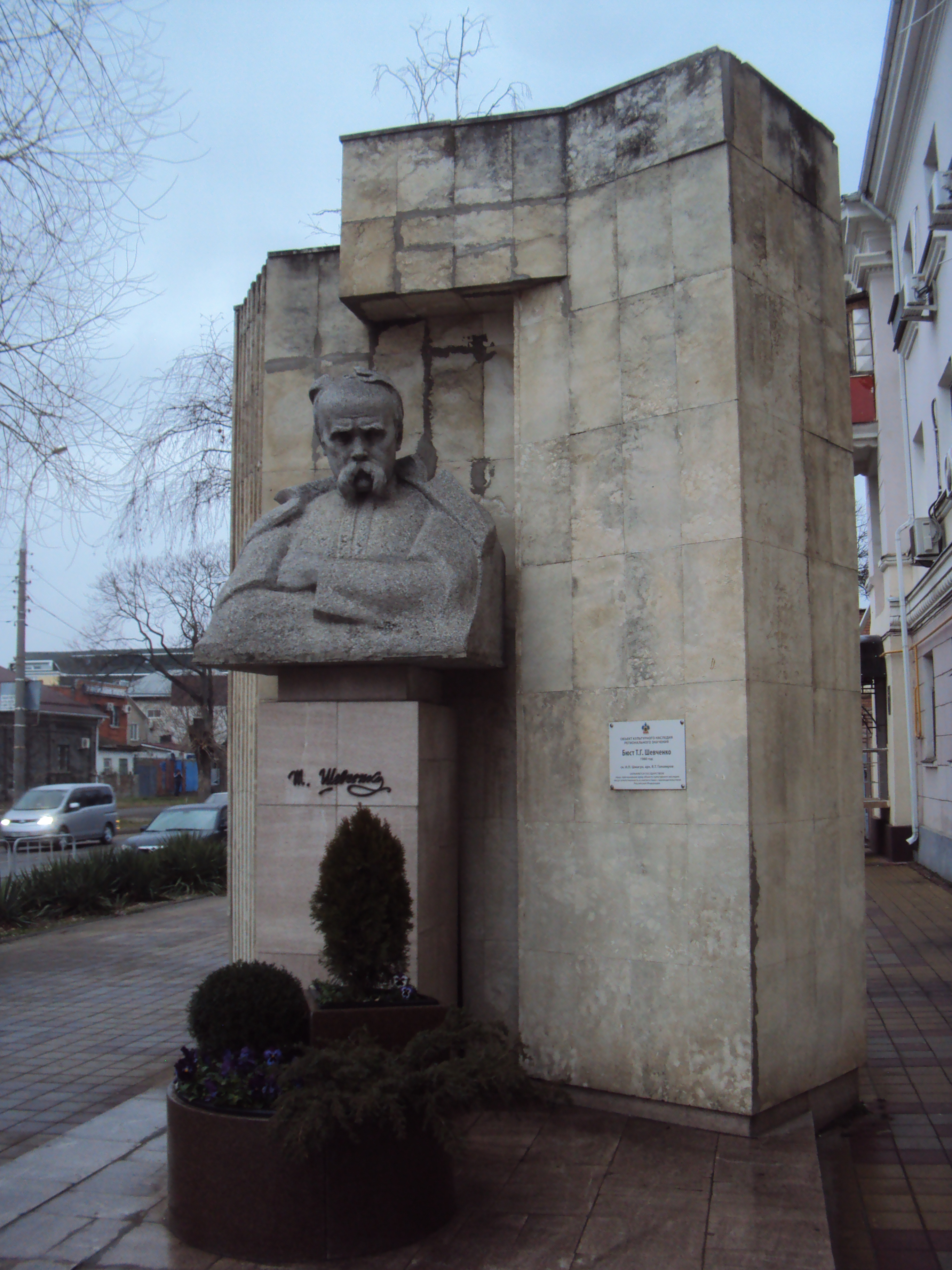 Bust Shevchenko